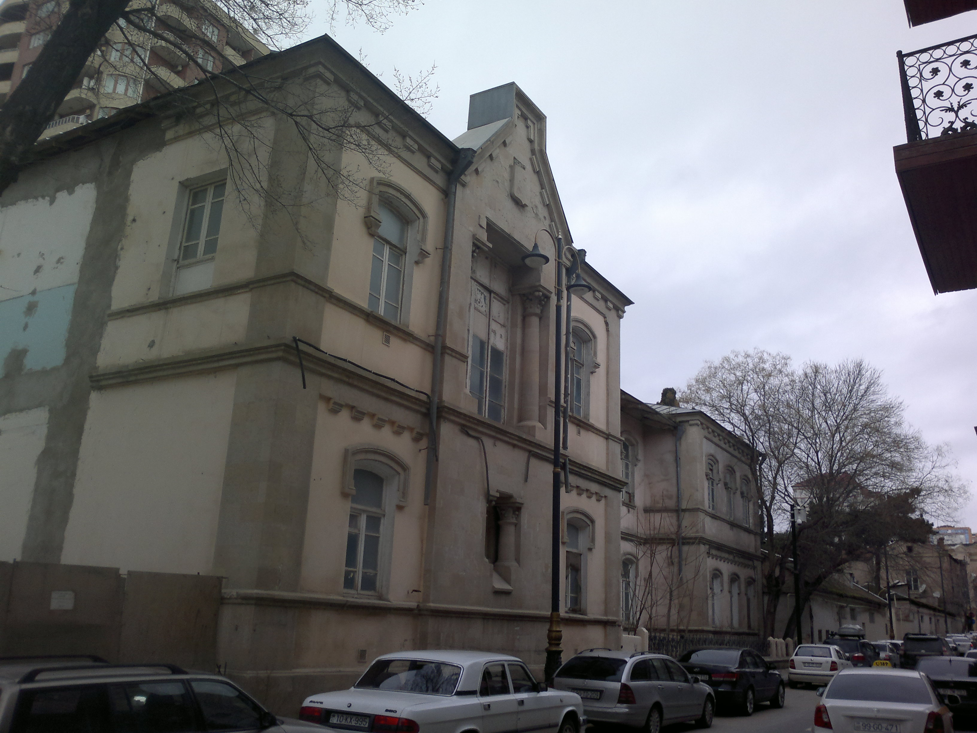 Mikhaylovskaya Hospital in Baku